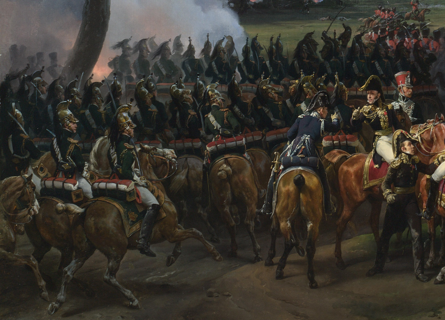 Detail of the painting of the Battle of Hanau, by Horace Vernet, depicting French Dragoon Guards